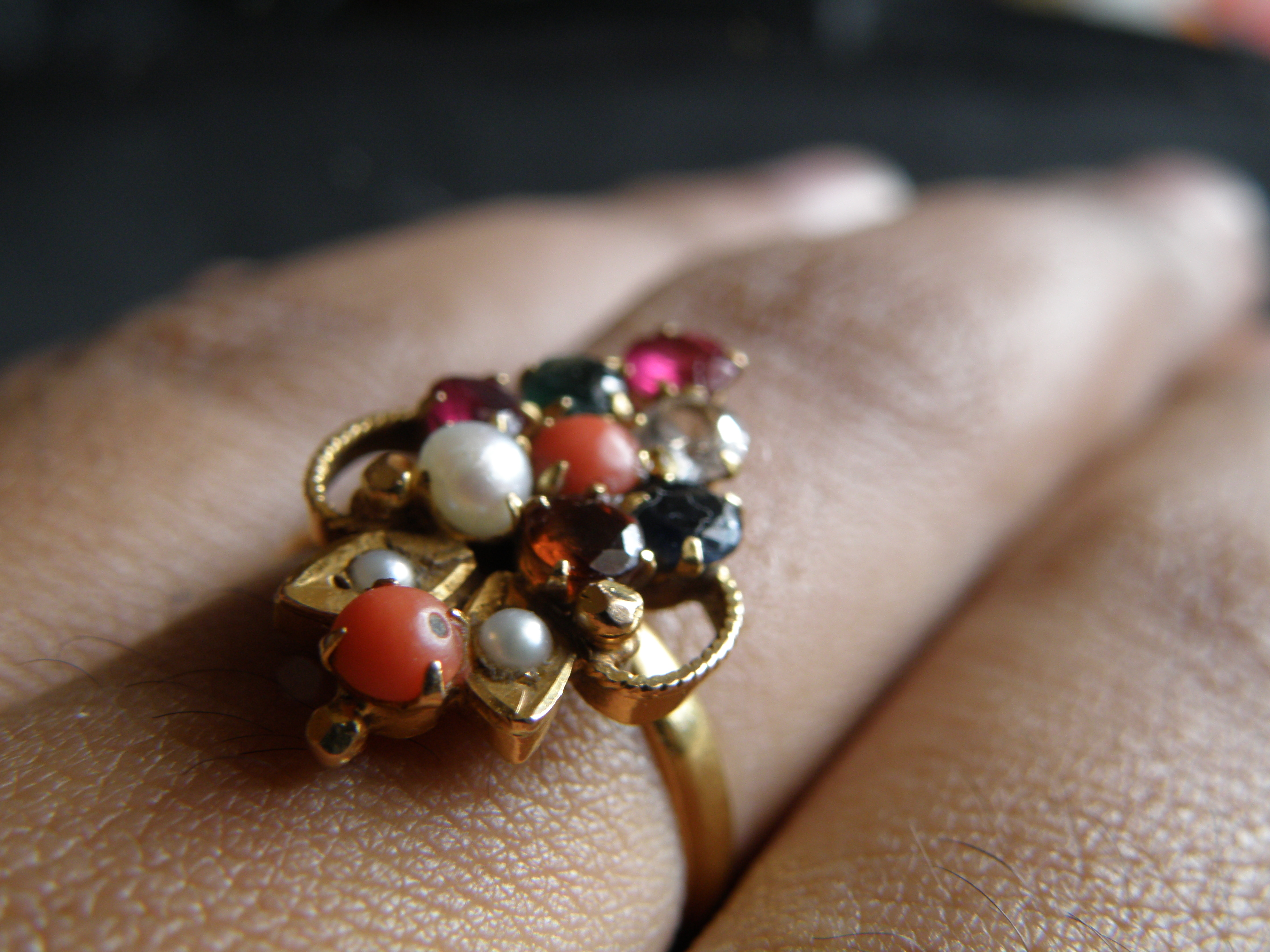 A ring with seven different kinds of stone. Such rings or rings with nine different stones are commonly worn in South India.